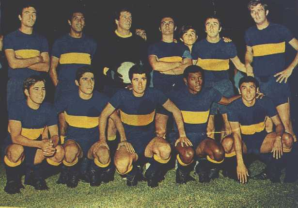 The 1970 Boca Juniors squad, which won the title. (stand): Roberto Rogel, Julio Meléndez, Antonio Roma, Rubén Suñé, Norberto Madurga, Silvio Marzolini. (seated): I. Peña, Raúl Armando Savoy, Angel Rojas, Orlando Medina, Aldo Villagra.